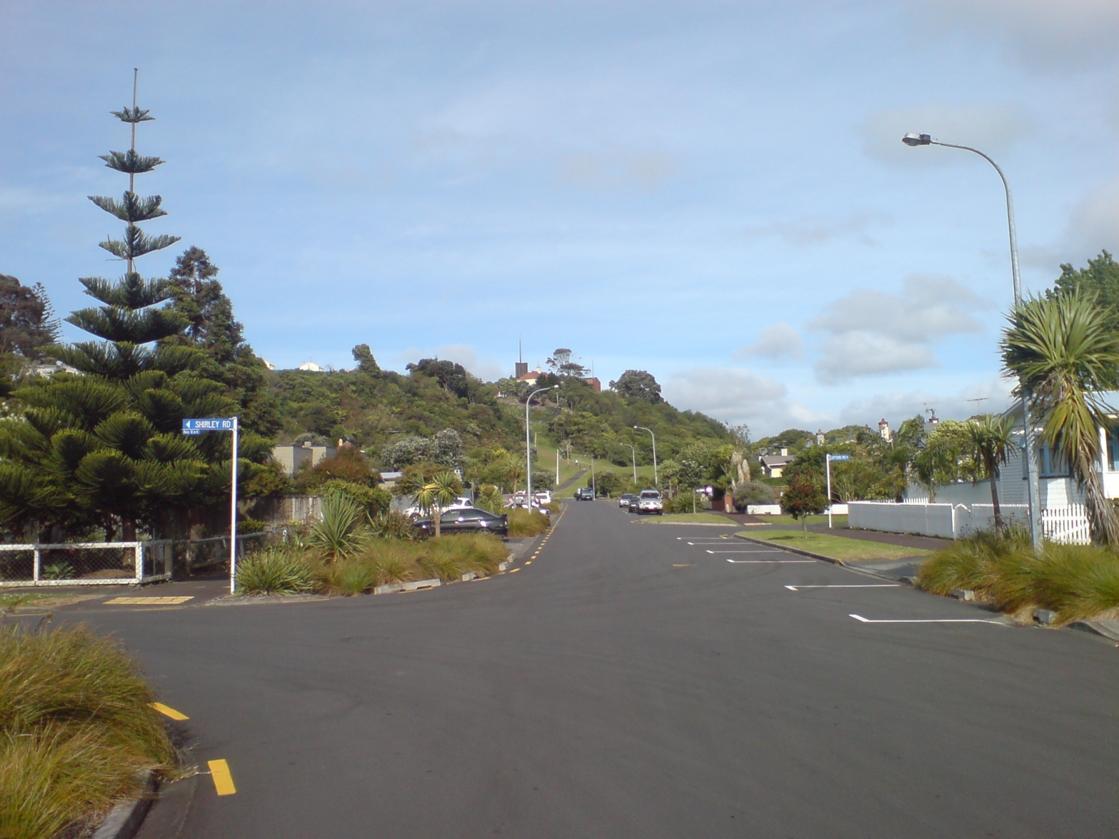 A look eastwards to Arch Hill Reserve in Arch Hill in Auckland City, New Zealand.